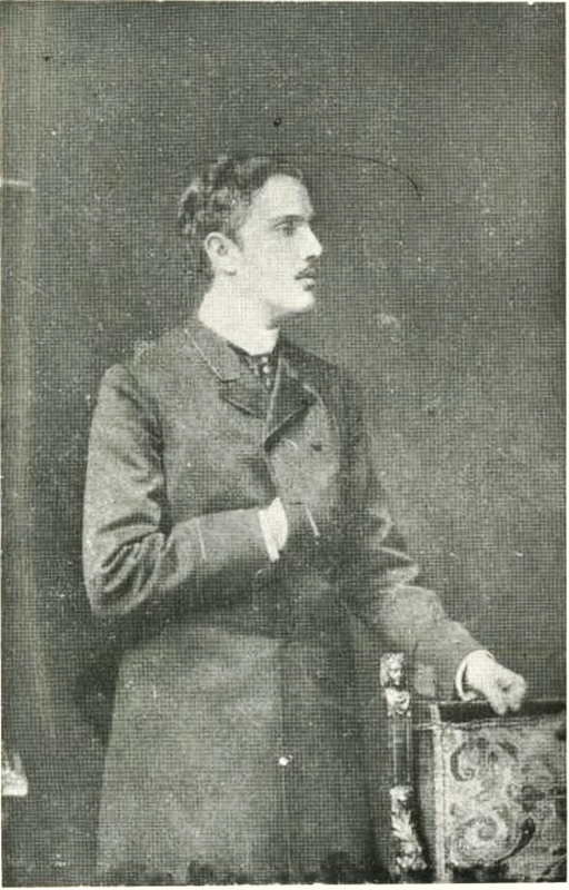 Prince Peter August of Saxe-Coburg-Koháry.